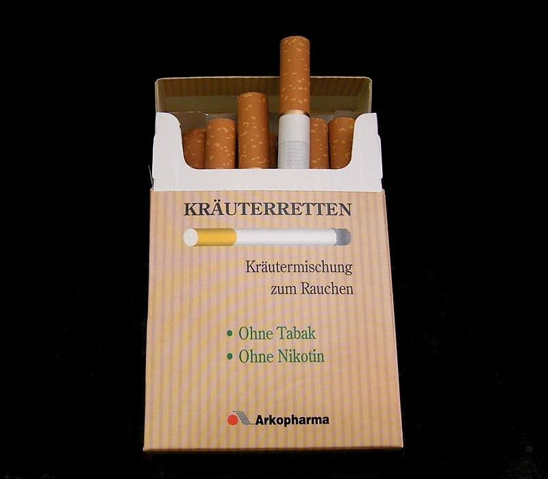 Expensive cigarette surrogate used to give up smoking. Without tobacco, without nicotine.